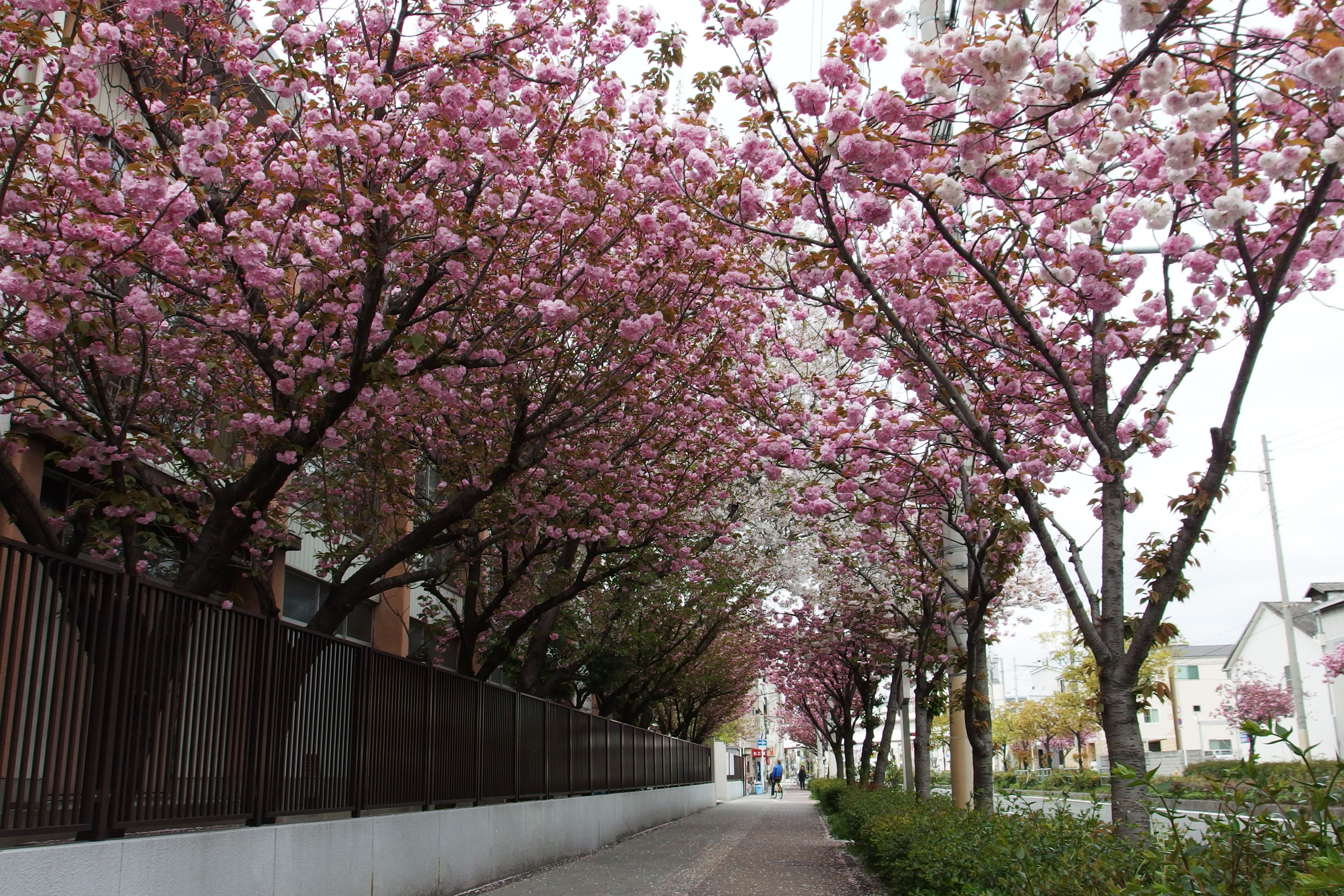 Shirokita-suji street in Osaka, Osaka Prefecture, Japan